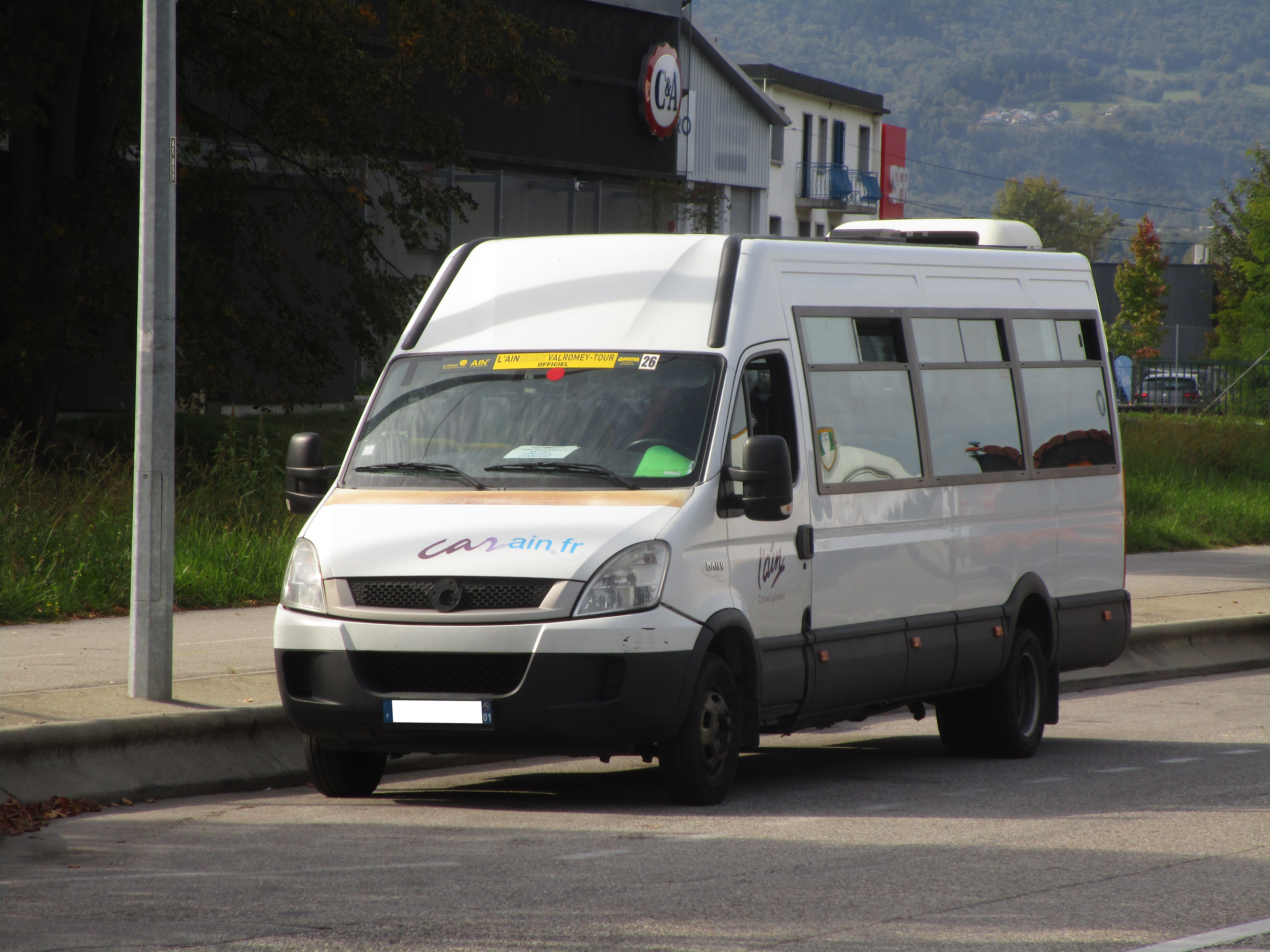 An Irisbus Daily (Bustours) in the Avenue des Landiers (Chambéry, France) on September 22, 2017.